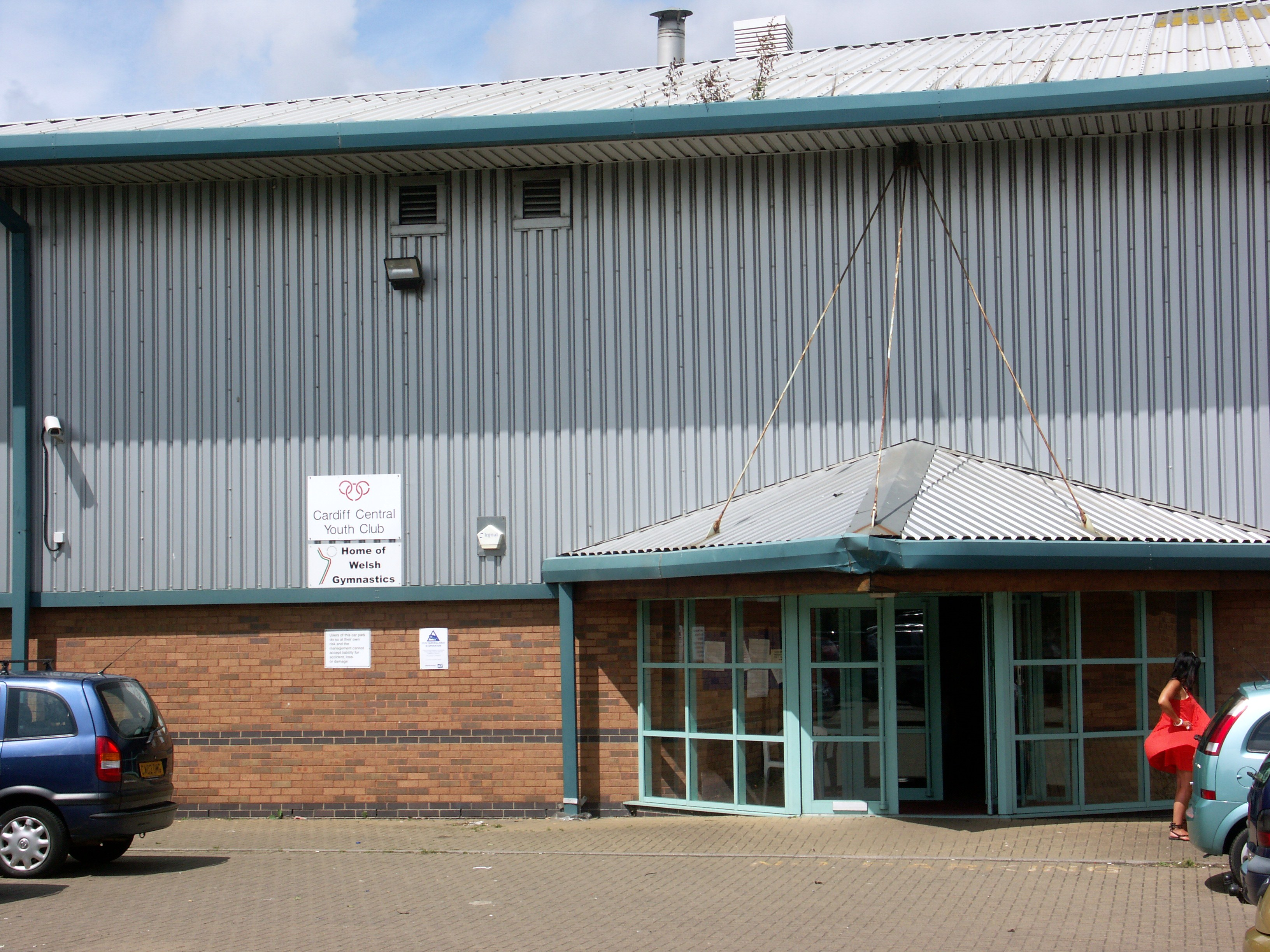 Cardiff Central Youth Club, home of Welsh Gymnastics